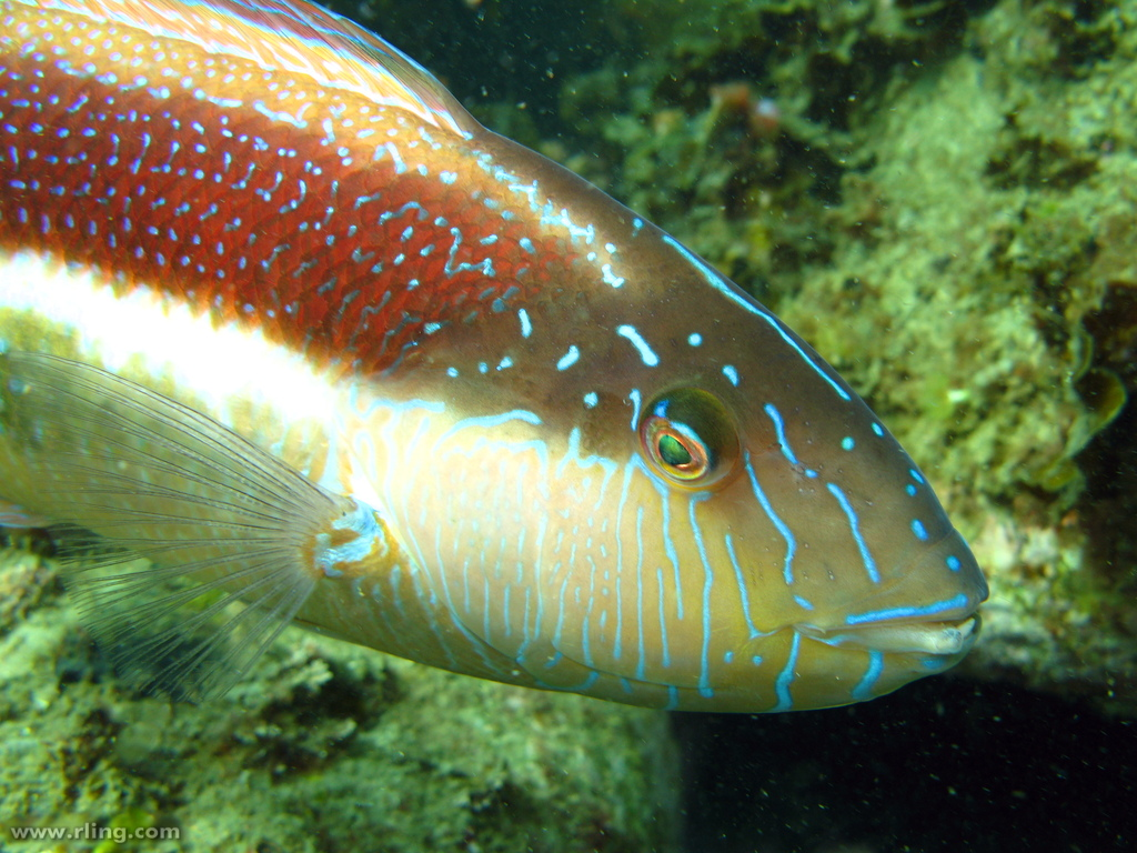 Portrait of a Maori Wrasse (Ophthalmolepis lineolatus). This individual has a lower jaw deformity. Fairy Bower, Manly, NSW